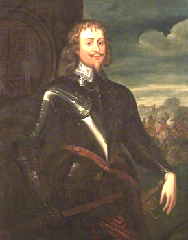 Sir Bevil Grenville (1596-1643), portrait after Van Dyck, Oil on canvas 124 x 99 cm, Victoria & Albert Museum, London, ref: BATVG:P:1954.2, purchased from Sir Vincent Baddeley, 1954